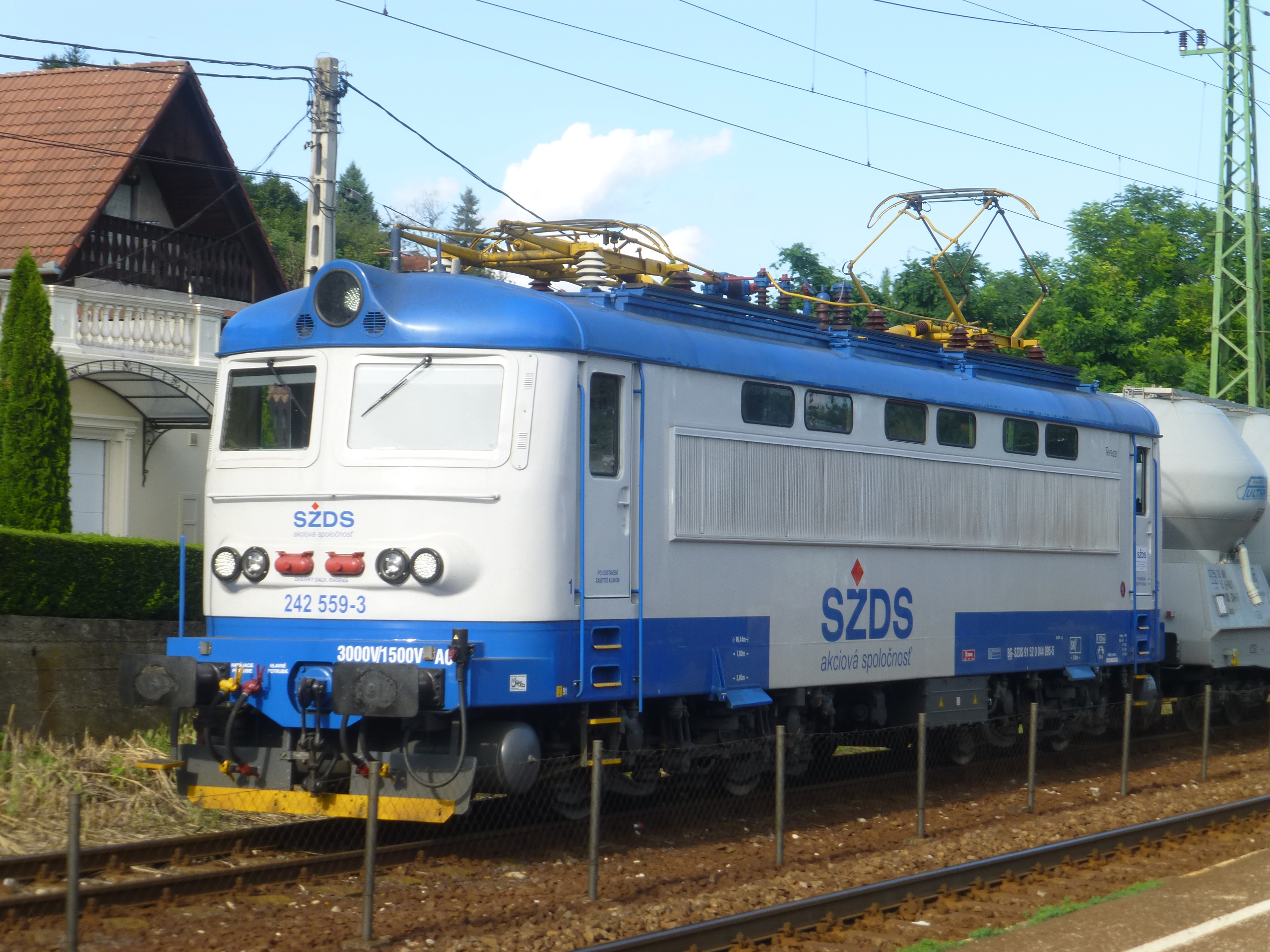 Bulgarian registred locomotive of the slovakian SŽDS in Verőce.